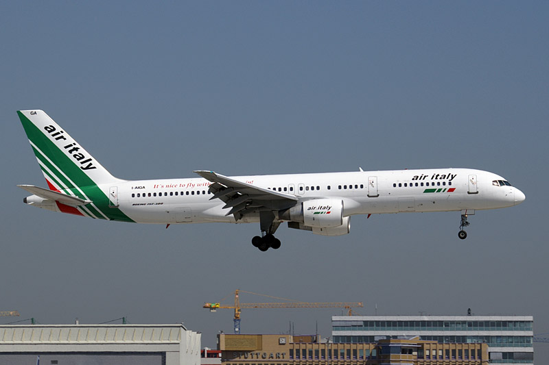 Air Italy Boeing 757-200 I-AIGA